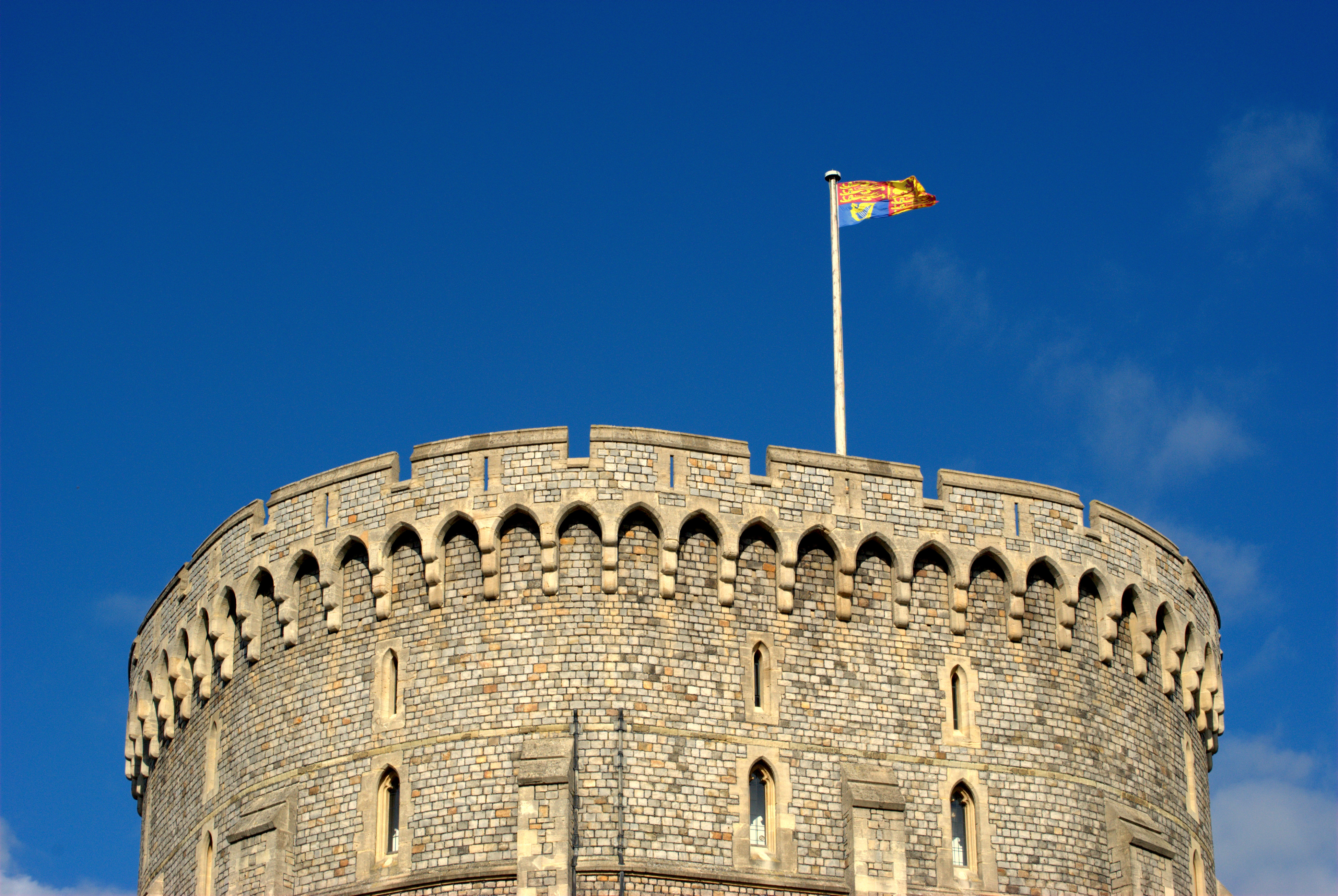 Windsor Castle